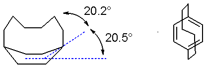 Summary [6]cyclophane core structure